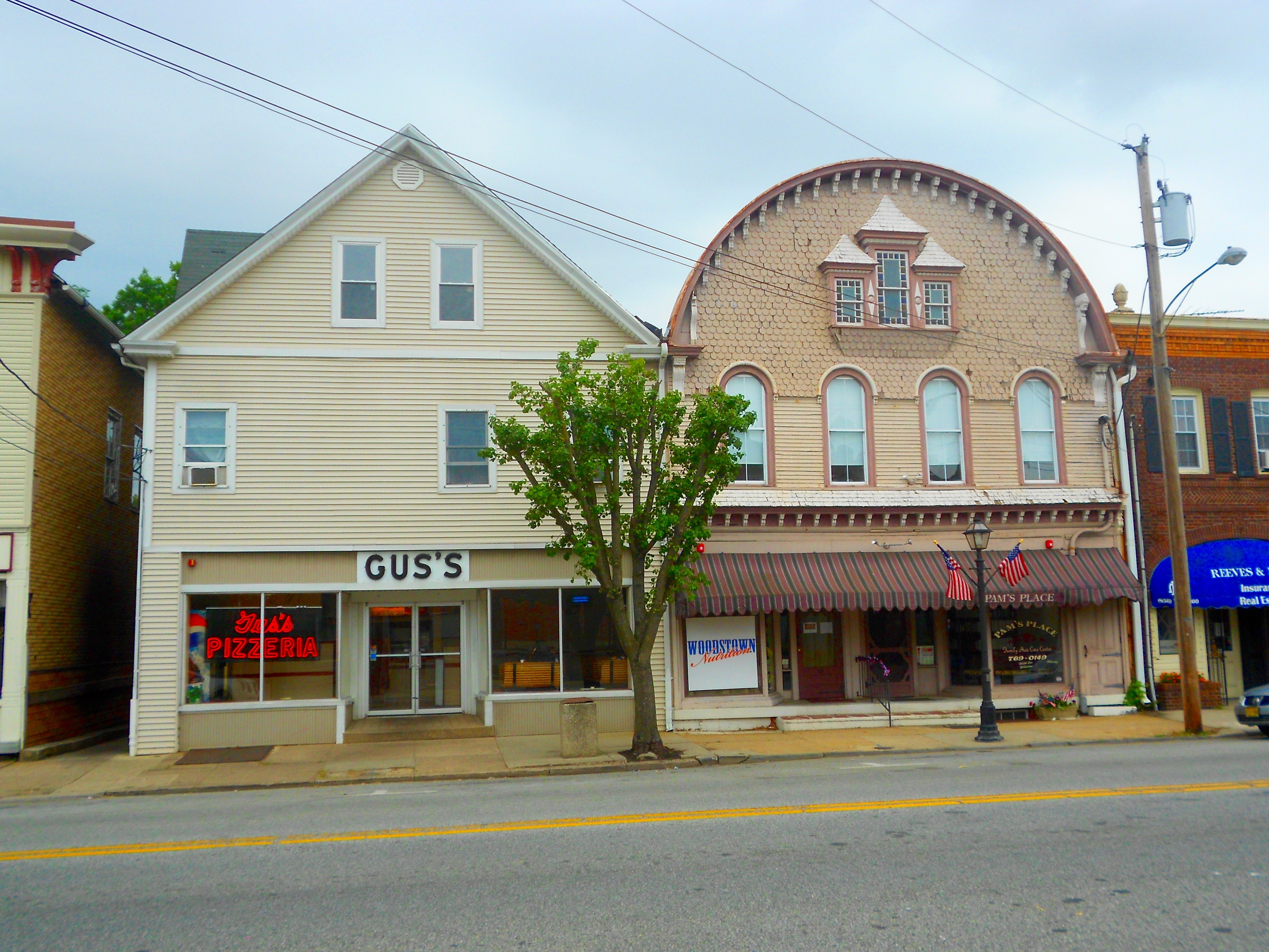 Two buildings on South Main Street, Woodstown, New Jersey